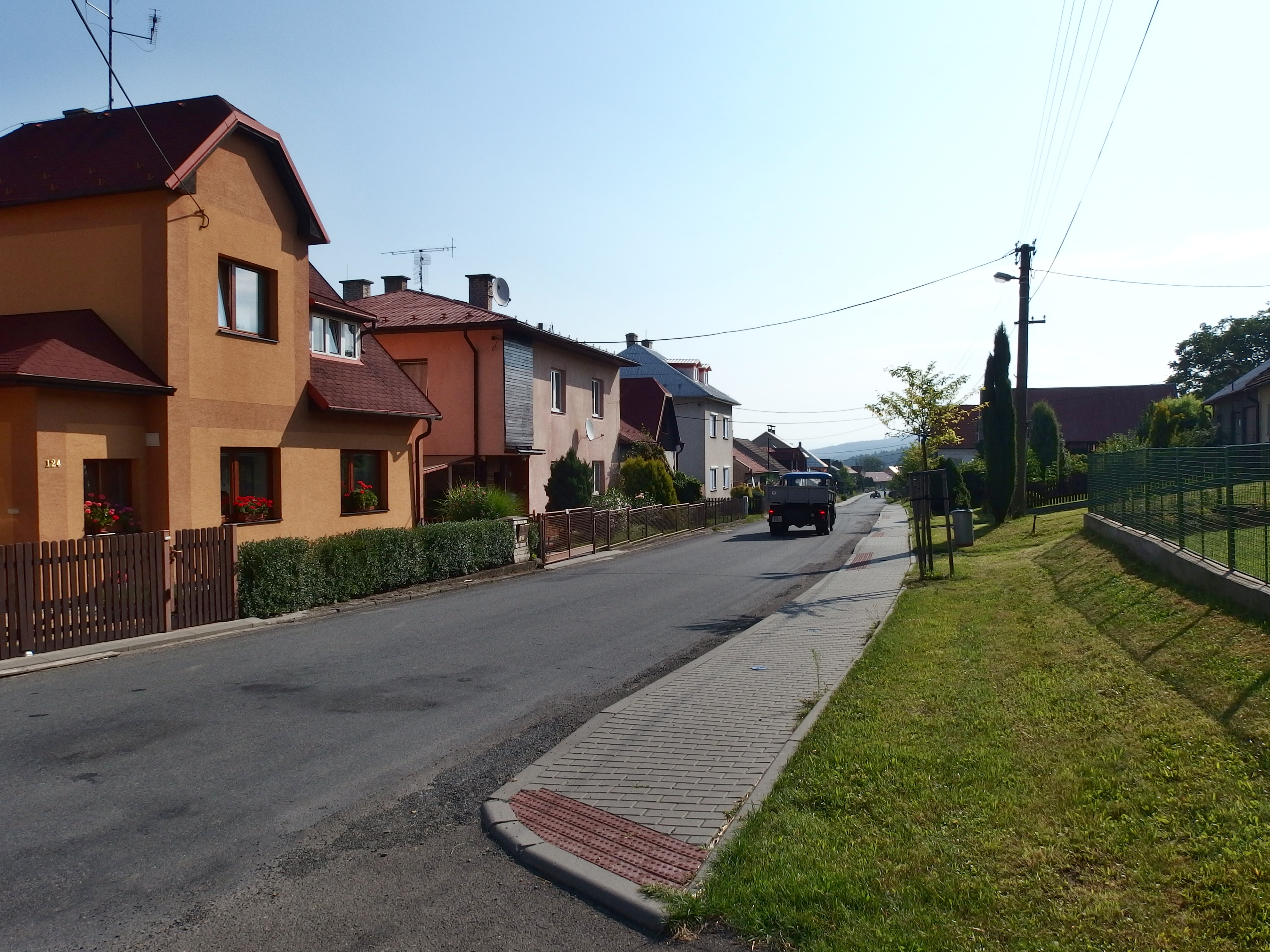 Loučka, Vsetín District, Czech Republic.